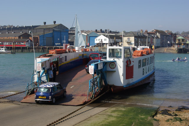 Cowes Floating Bridge. This chain ferry loads the last vehicle before setting off yet again for one of its frequent trips from East Cowes to Cowes. For more information see the Wikipedia article Cowes Floating Bridge.